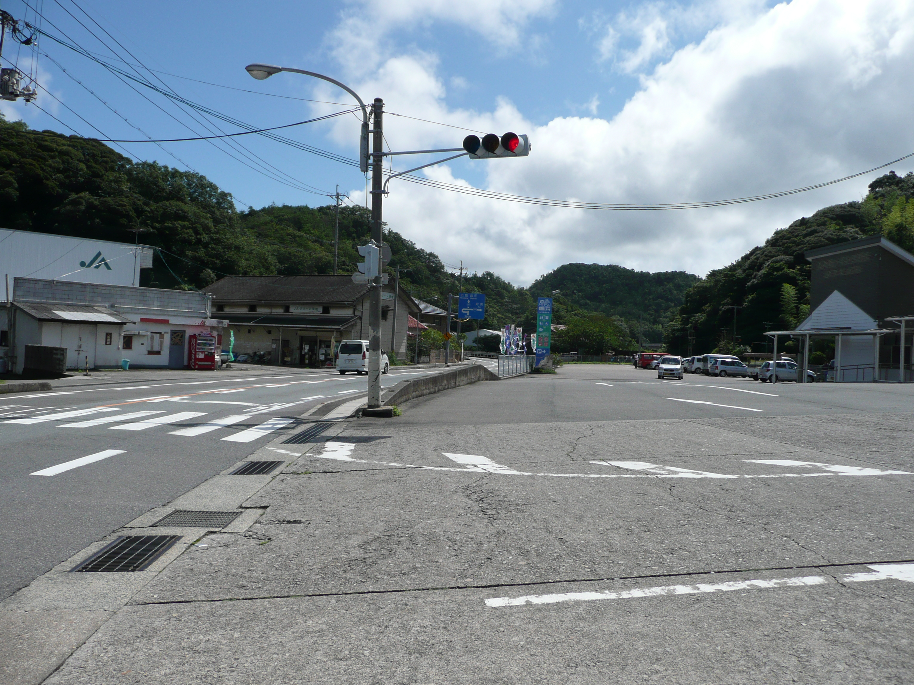 Susa Station front